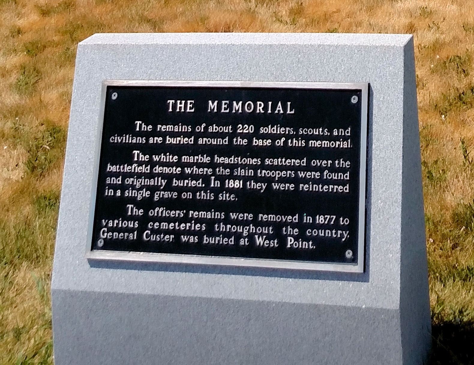 Memorial plaque at the base of monument erected to commemorate the fallen soldiers, scouts, and civilians who fell and those who are buried at Little Bighorn Battlefield National Monument, Crow Agency, MT.